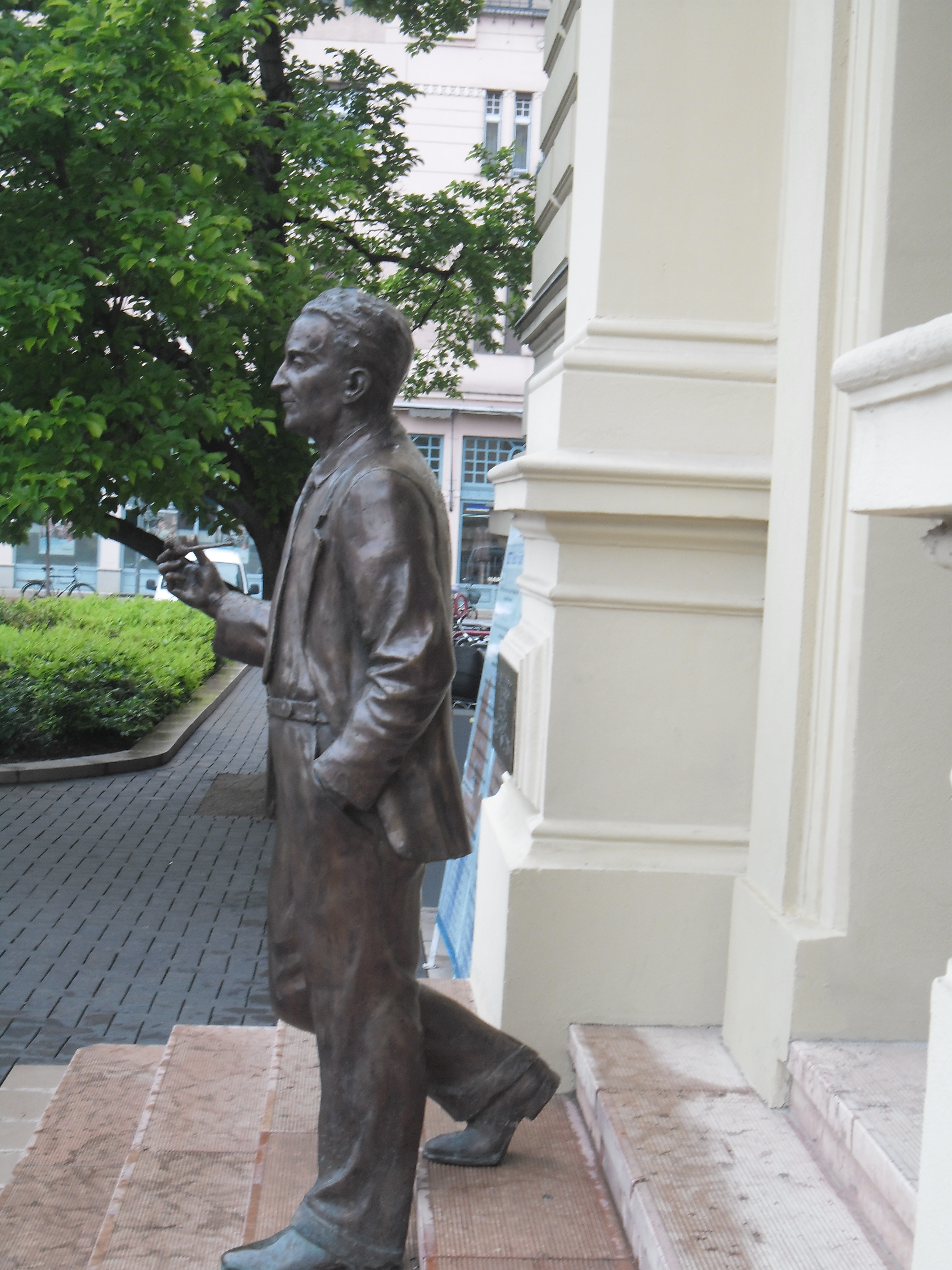 Statue of Albert Szent-Györgyi in Szeged